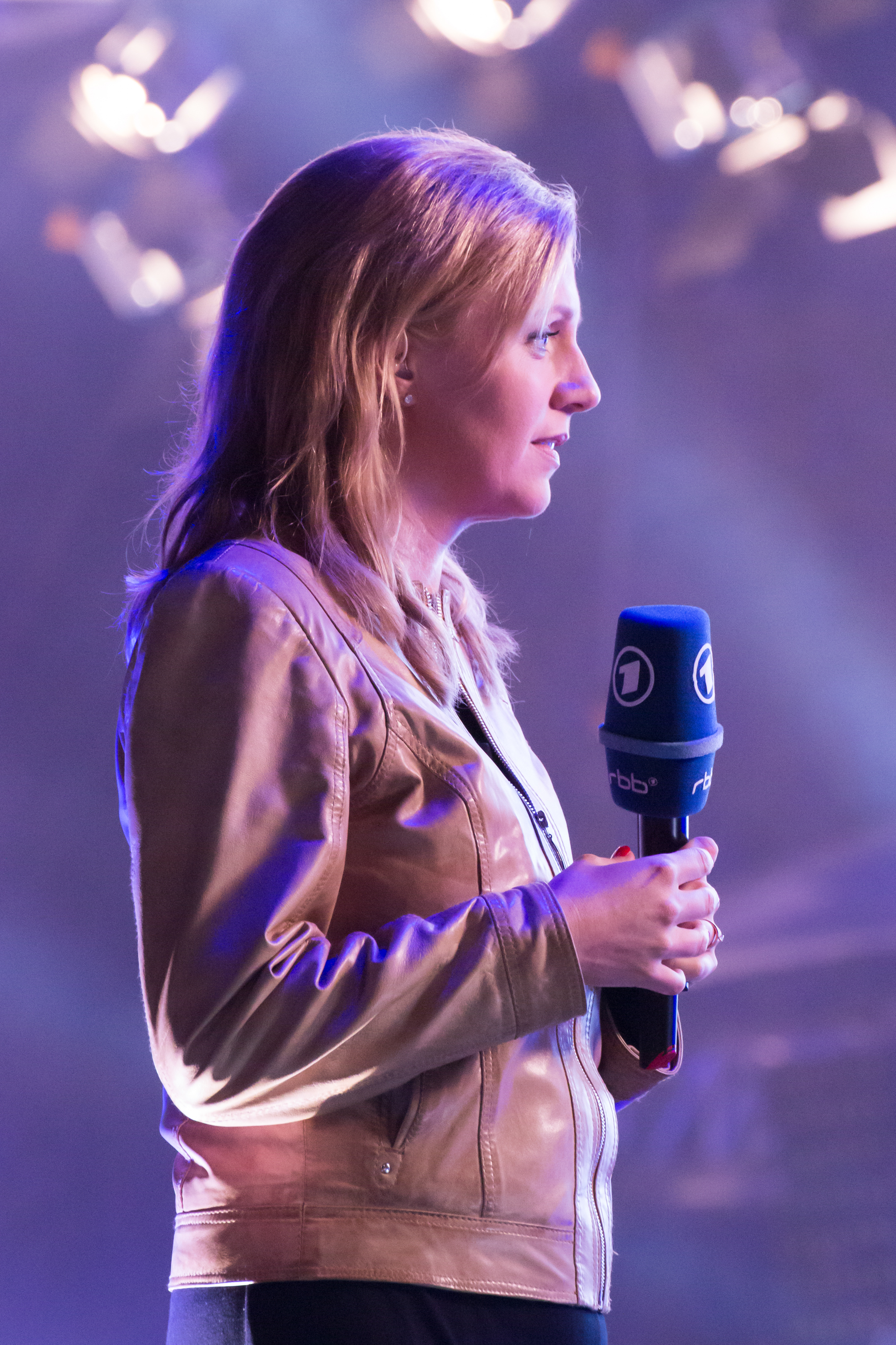 Sarah von Behren on the fan fest at theBrandenburg Gate after the 2014 FIFA World Cup final